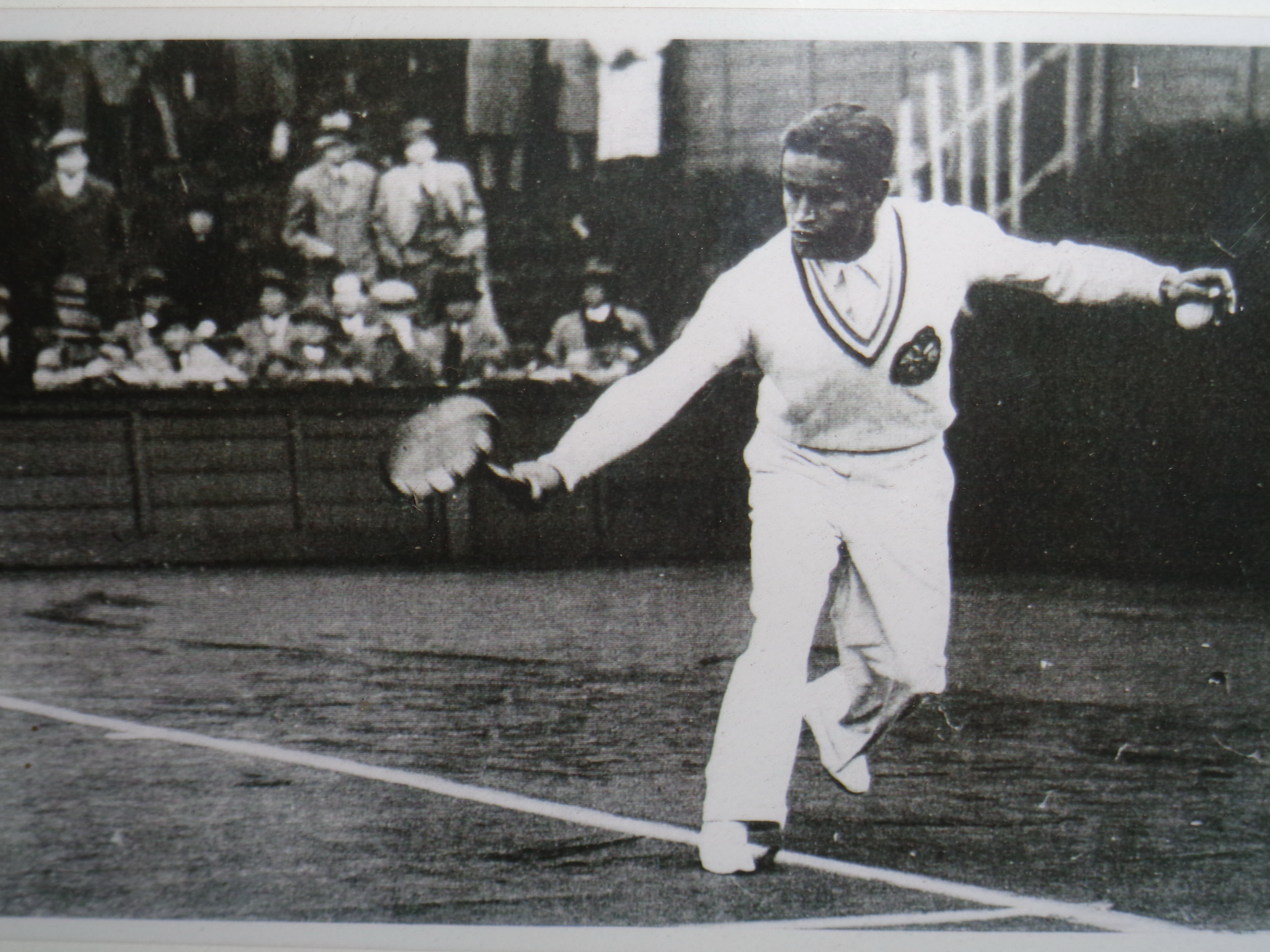 Franjo Punčec (1913-1985), top-level Croatian tennis player, in action